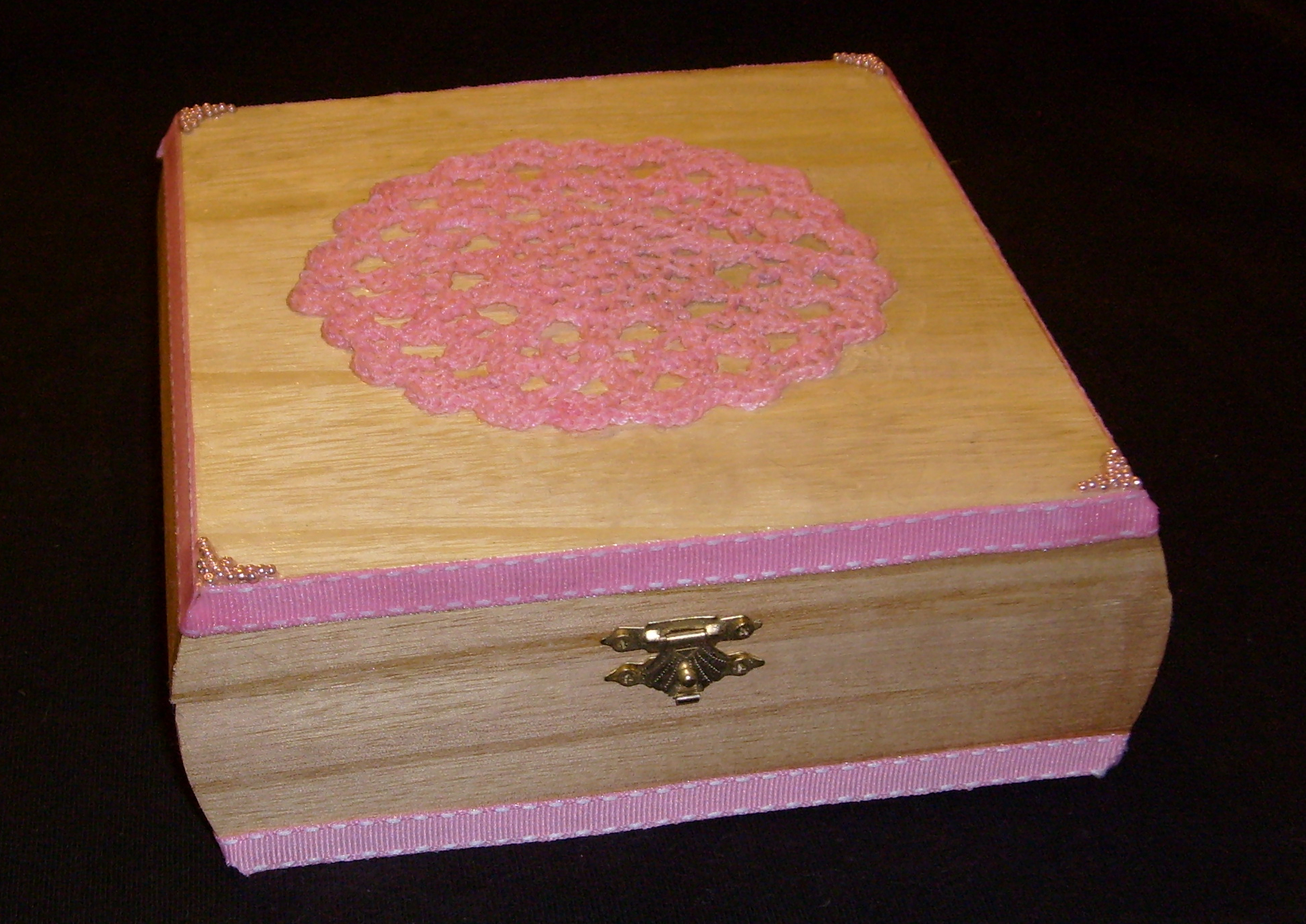 Jewelry box with decoupage embellishments in crochet lace, glass beads, and ribbon. Original design.